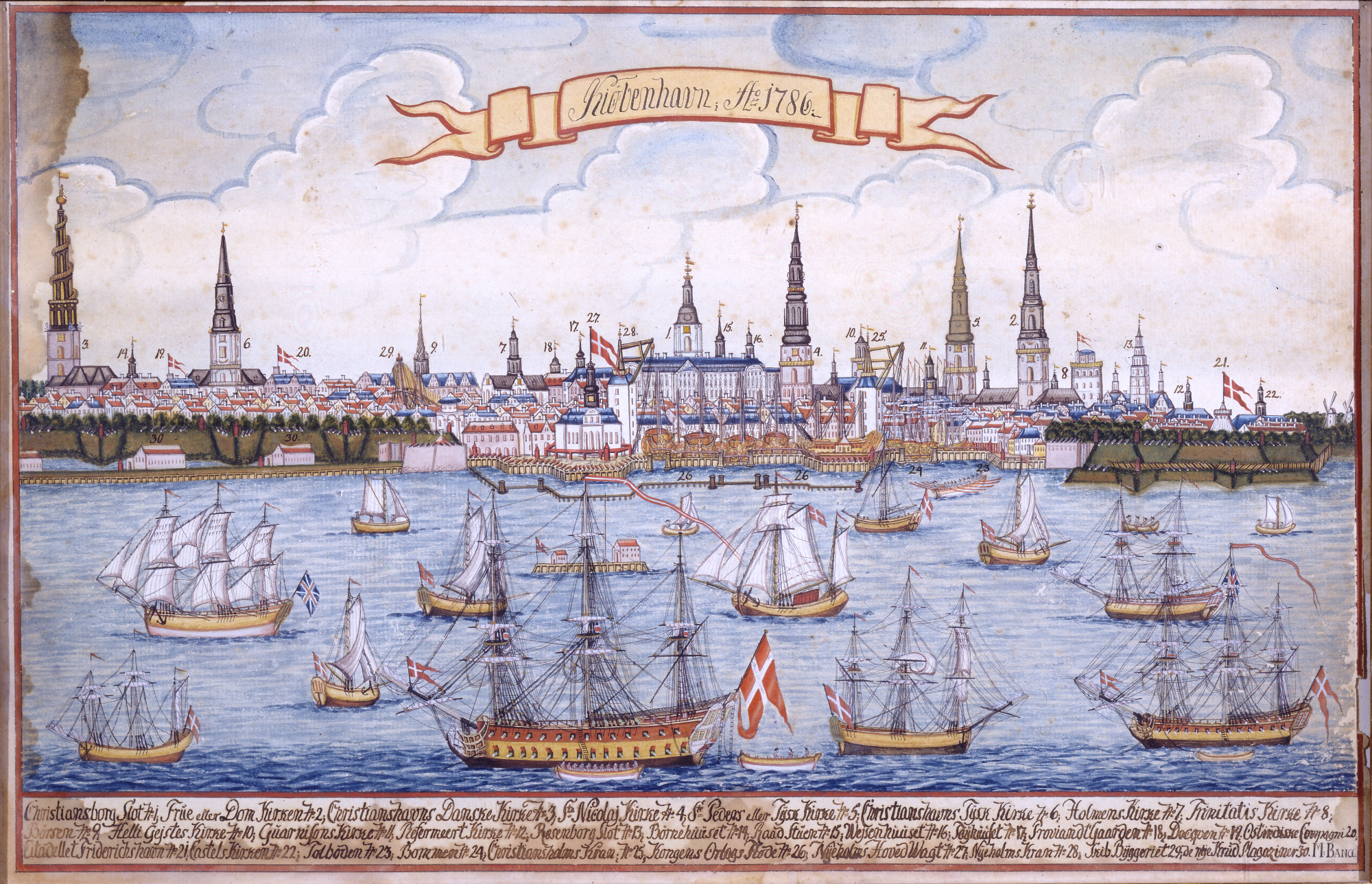 Gouave of Copenhagen, Denmark